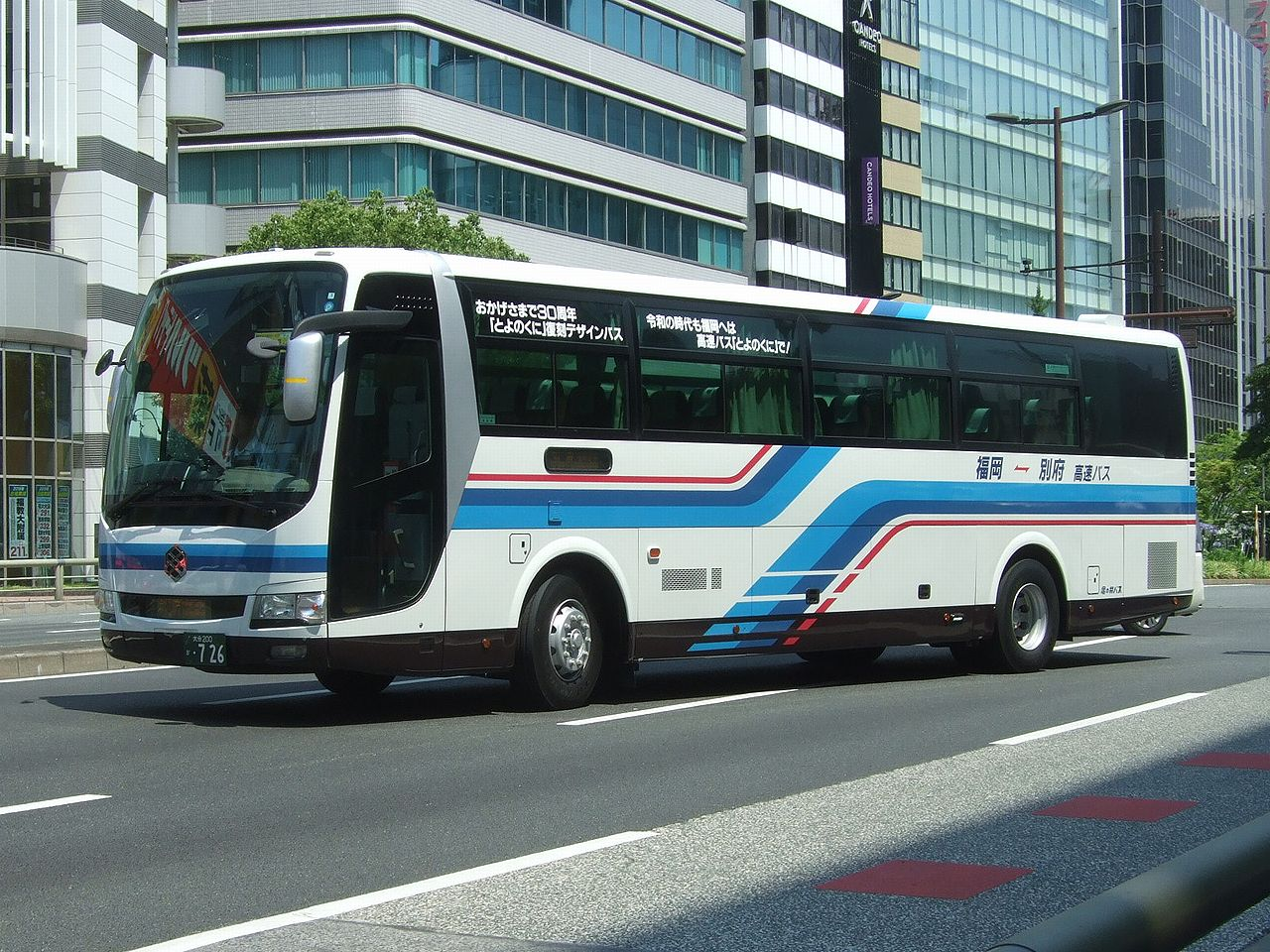 Company:Kamenoi Bus Use:transit bus (highway bus) Car license:大分200 か・726 Chassis manufacturer:Mitsubishi Fuso Truck and Bus Corporation Coachbuilder:Mitsubishi FUSO Bus Manufacturing Location:Tenjin, in Chuo-ku, Fukuoka City, Fukuoka, Japan.